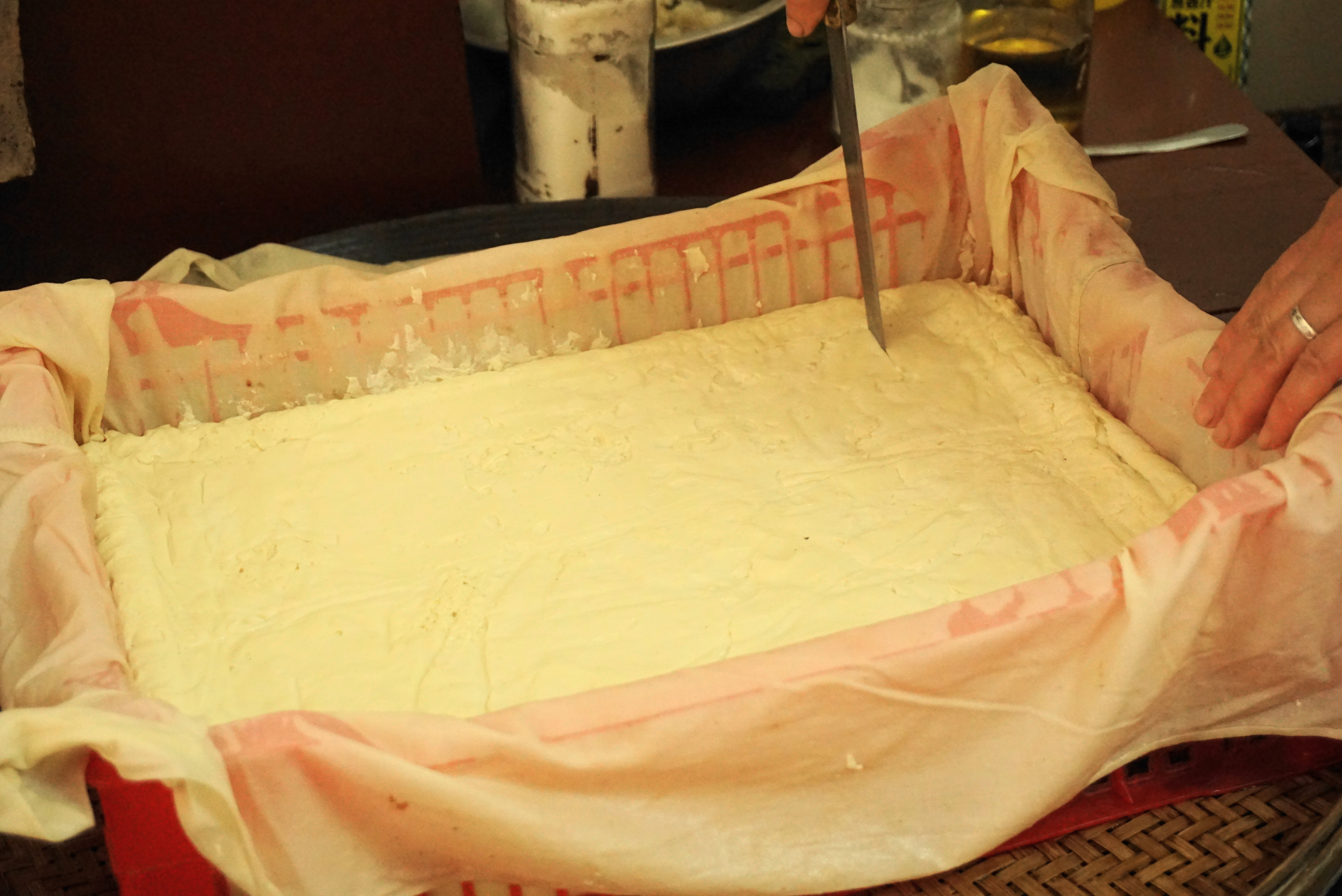 This photo has been taken in the country: China